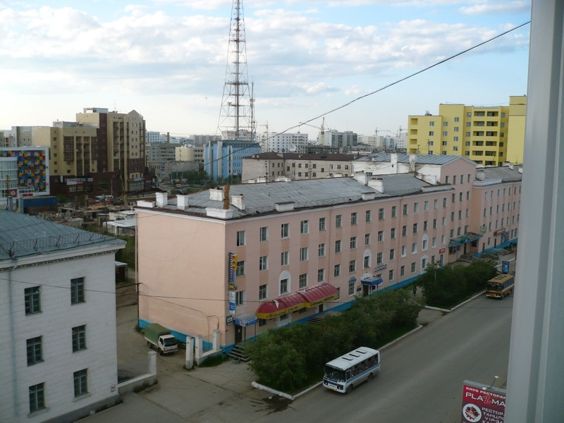 Yakutsk – View of the city from the Geological Institute collections area